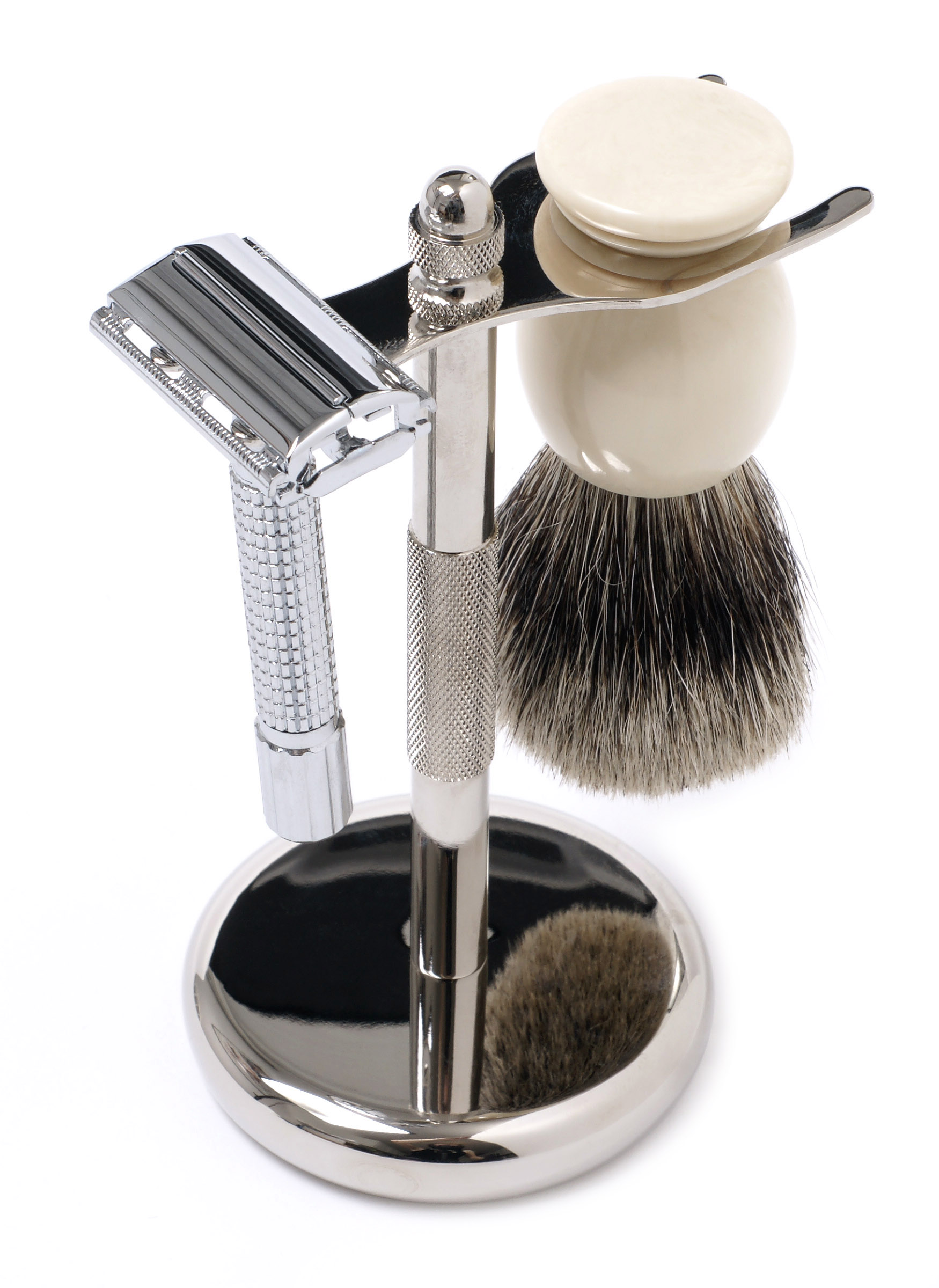 A shaving set composed of brush and a safety razor.